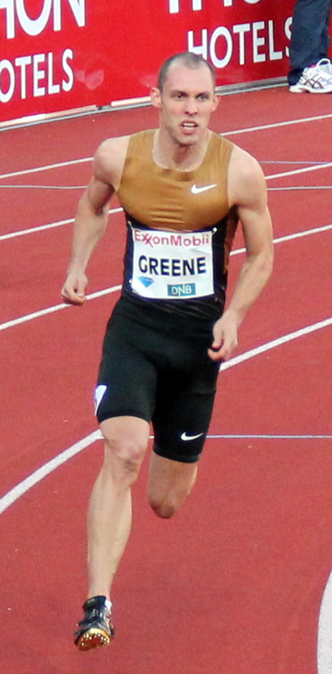 David Greene at the 2012 Bislett Games